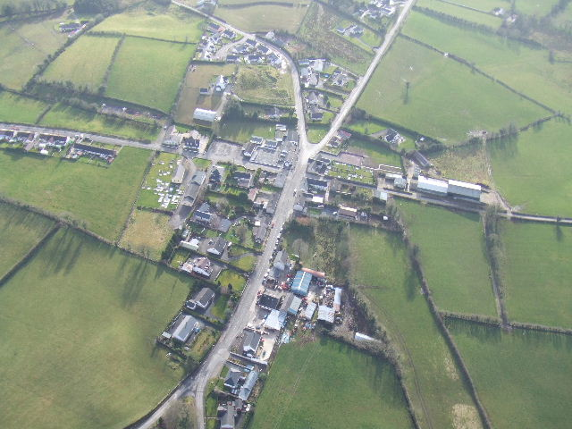 Seskinore village A view from approx 800ft of the entire village of Seskinore